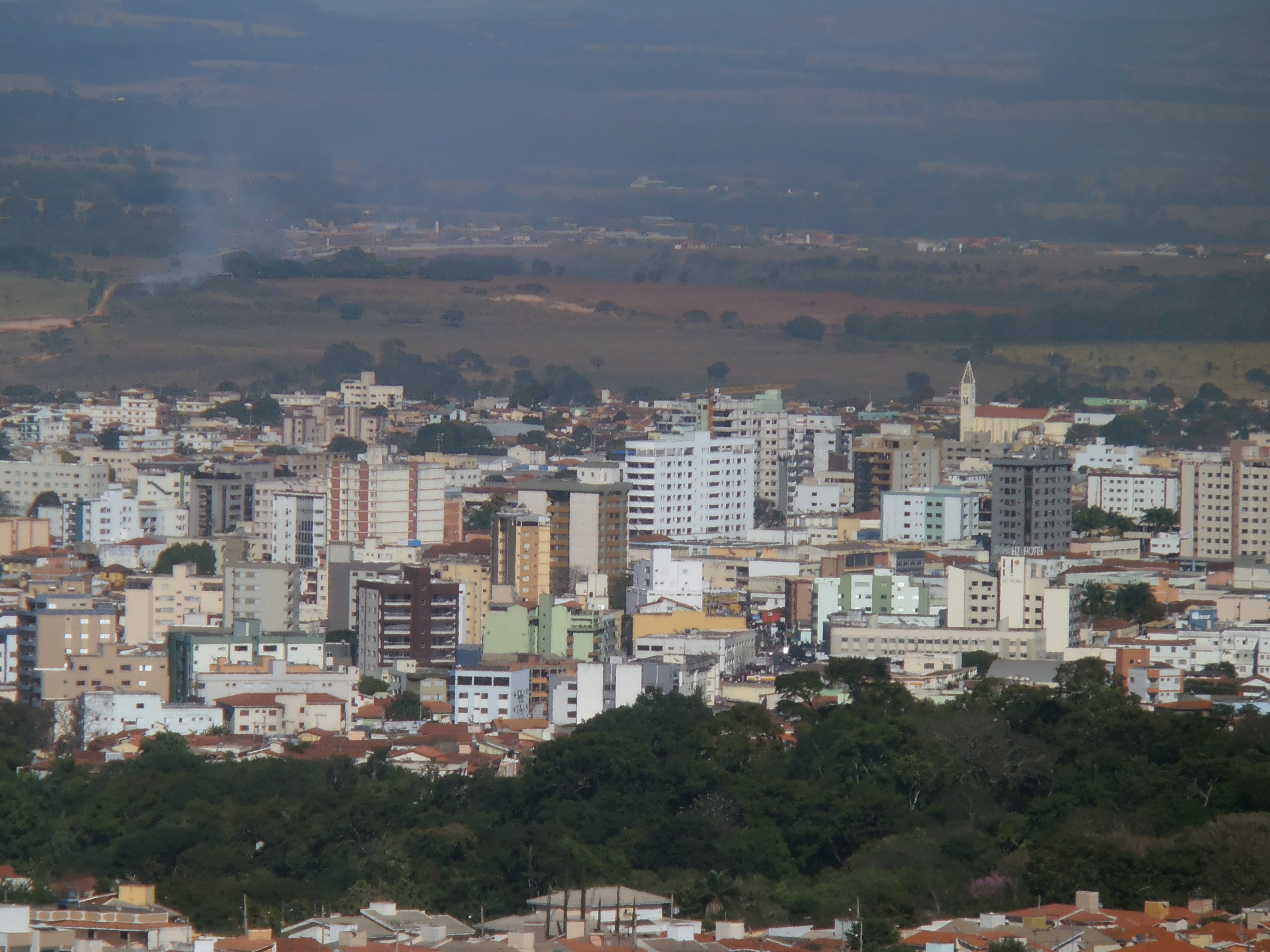 Panoramic view of Patos de Minas, Brazil, in 2014